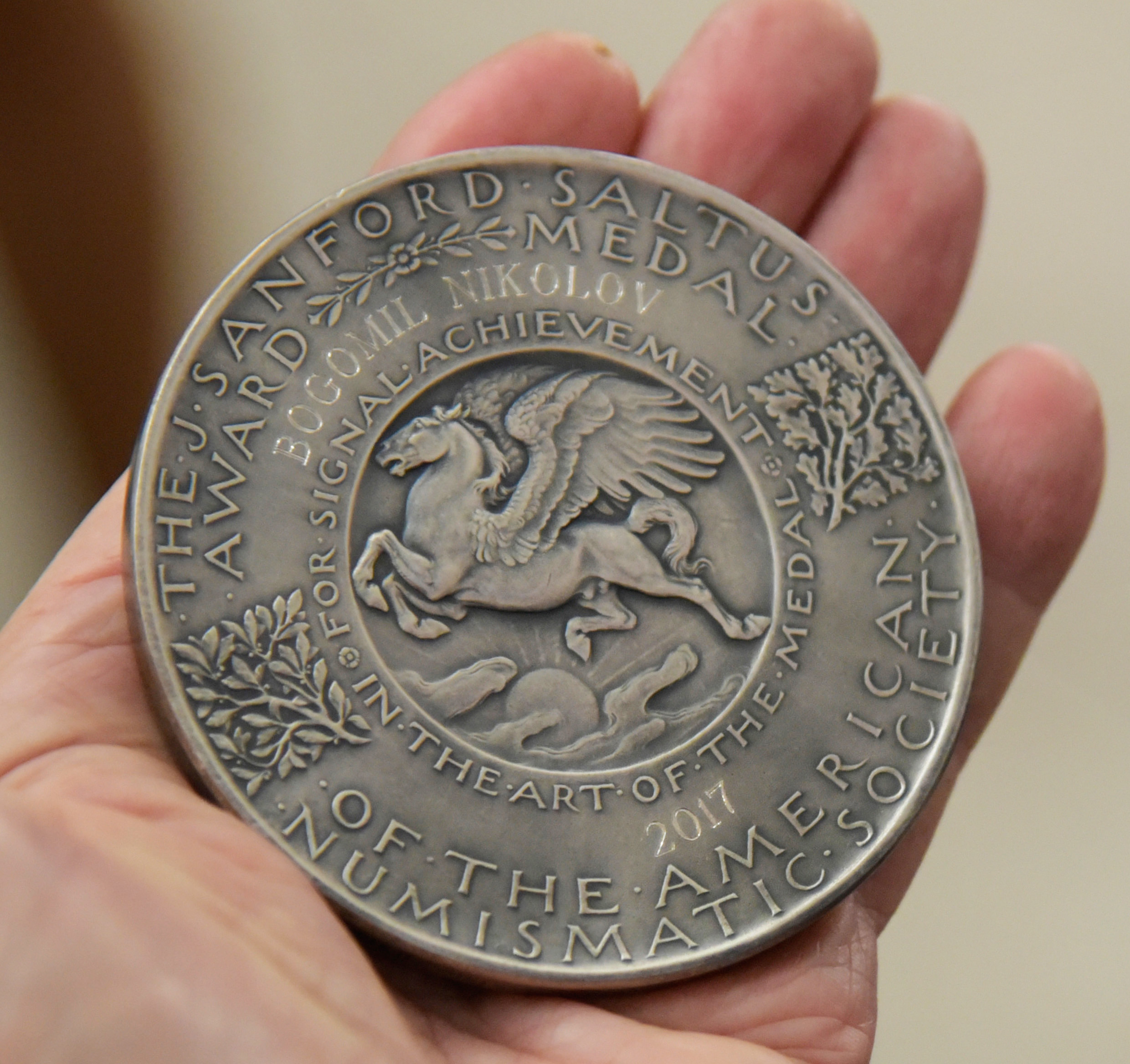 SALTUS AWARD 2017